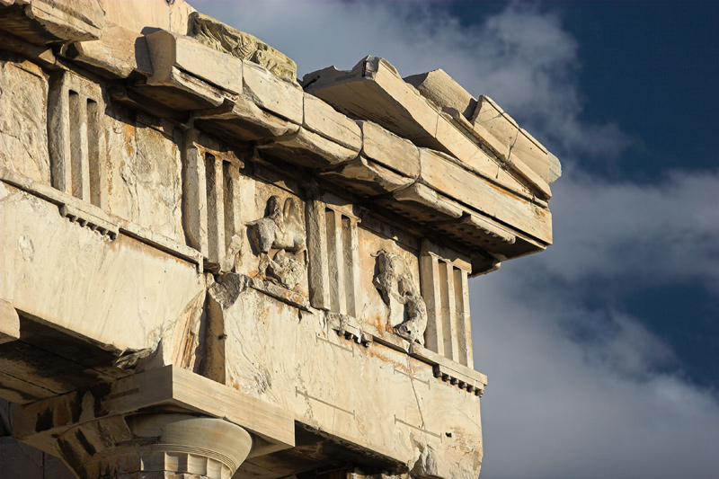 Picture I took of Parthenon, late autumn of 2005. Equipment used Canon 20D, 70-200/2.8L.